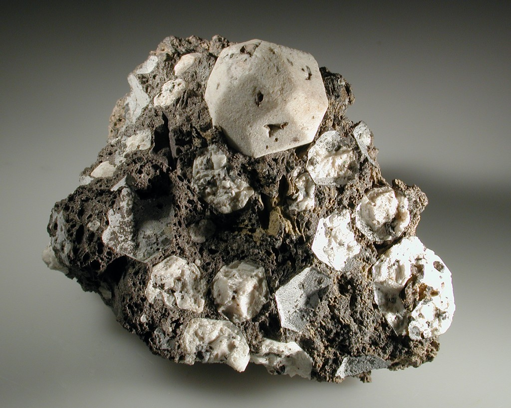 Leucite Locality: Poggio Nibbio, Vico Lake, Viterbo Province, Latium, Italy Original description: Leucite crystals in lava rock, 48 x 40 x 35 mm. K. Nash specimen & photo.